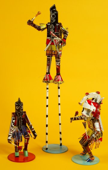 Like many cultures, the cliff-dwelling Dogon peoples of rural Mali in West Africa have special beliefs and practices related to death. It is believed that after a person dies, even if his body is removed, his spirit remains in his home. The spirit must be coaxed out with a special ceremony. The spirit then begins its journey on to the heavenly world to join the other ancestors. The bodies of the deceased are hauled high up into burial caves along the cliffs where it is believed the first humans lived. Every two or three years, the Dogon gather to conduct a dama dance, believed to help create a bridge to the supernatural world. This dance marks the closing of the mourning period for community members who died since the last dama dance. It is believed that without the dama dance the dead cannot pass over into peace. The dance lasts several days and features dancers wearing many different types of dance outfits and masks that mimic animals and figures in daily Dogon life. Some of the most striking dancers are those on stilts, dressed in elaborate outfits and masks. Villagers surround the dancers and watch as they execute difficult choreographed steps. The stilts are meant to imitate the tingetange, a long-legged water bird.